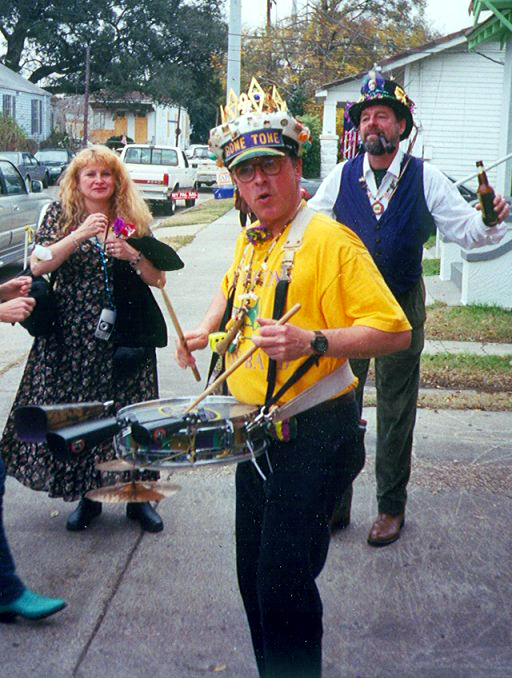 Musician Louis Lederman, leader of the Bone Tone Brass Band, playing a snare drum with cow-bells and small cymbals attached, at a Carnival event in Uptown New Orleans, 2002. Photo by Infrogmation.